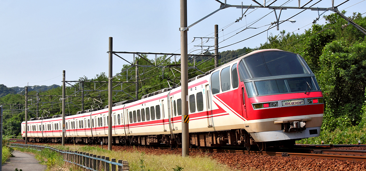 Meitetsu 1030/1230 series EMU set 1132